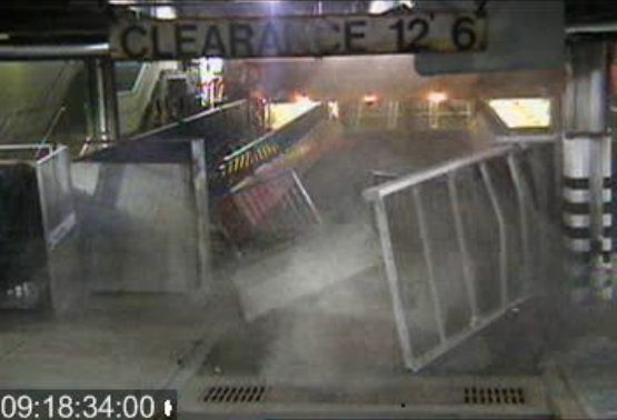 The moment of the collision between the Andrew J. Baberi and the Staten Island Terminal (May 8, 2010).